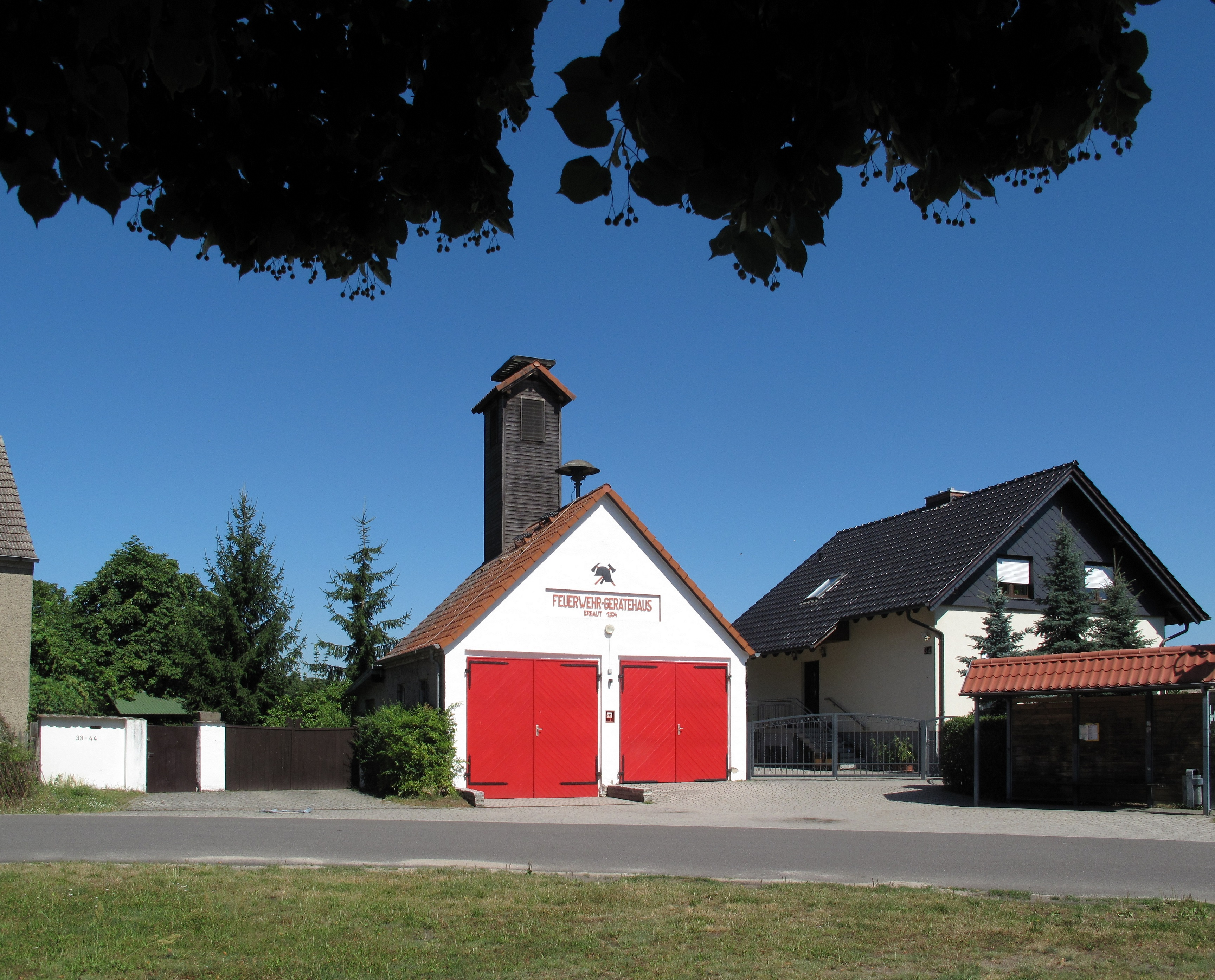 Volunteer fire department, built in 1954, in Kummersdorf. The village Kummersdorf is a part of the town Storkow, District Oder-Spree, Brandenburg, Germany. The village was first mentioned in 1442 and had on January 1, 2013 507 inhabitants. It is situated in the Dahme-Heideseen Nature Park.